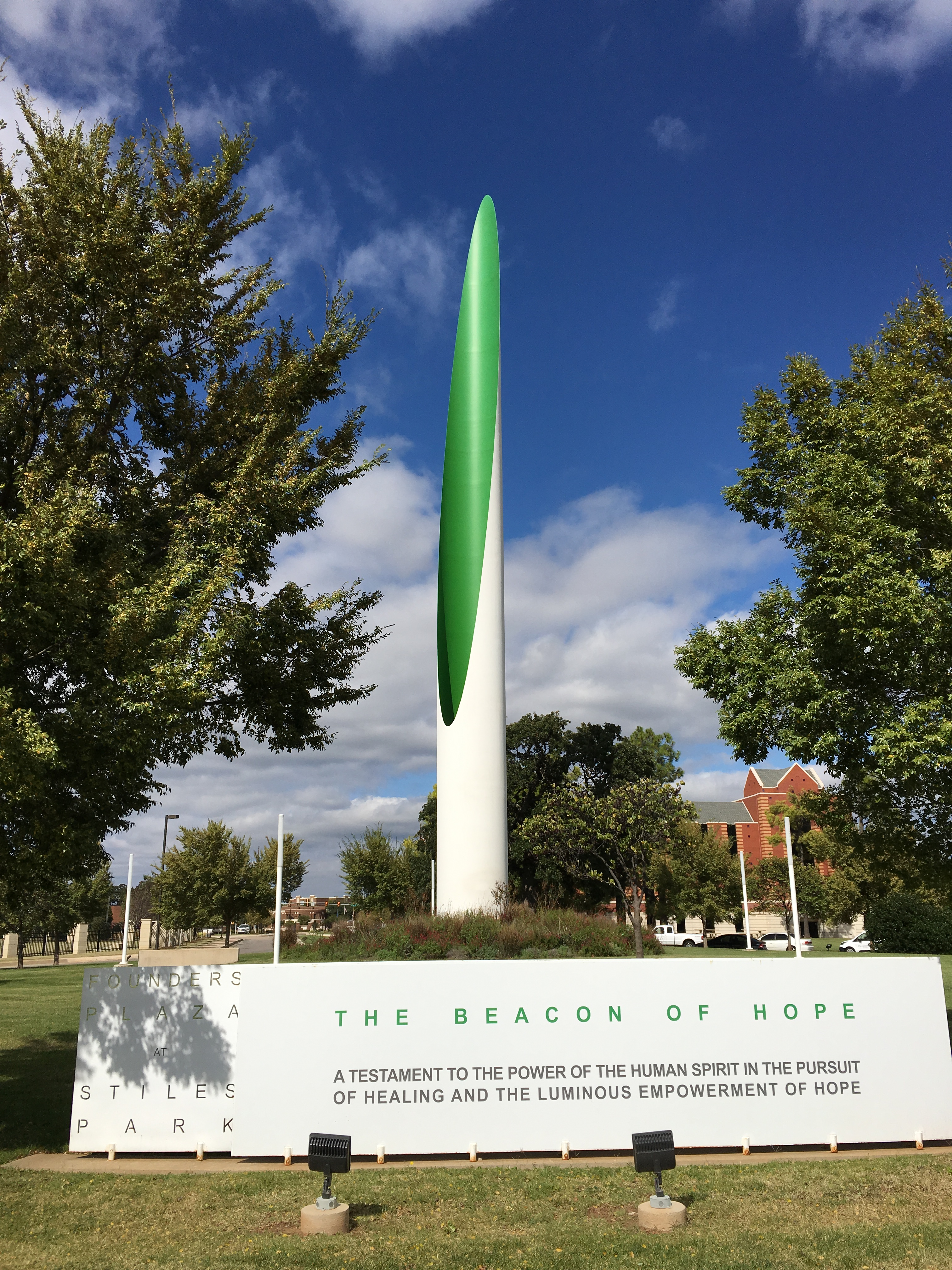 Beacon of Hope, Stiles Park, Oklahoma City, Oklahoma. 100' tall, 8' diameter tubular spire northeast of downtown Oklahoma City with green beacon first lit on 2 Nov 2005. Honors those responsible for the Oklahoma Health Center. The park commemorates Capt. Daniel Frazier Stiles .